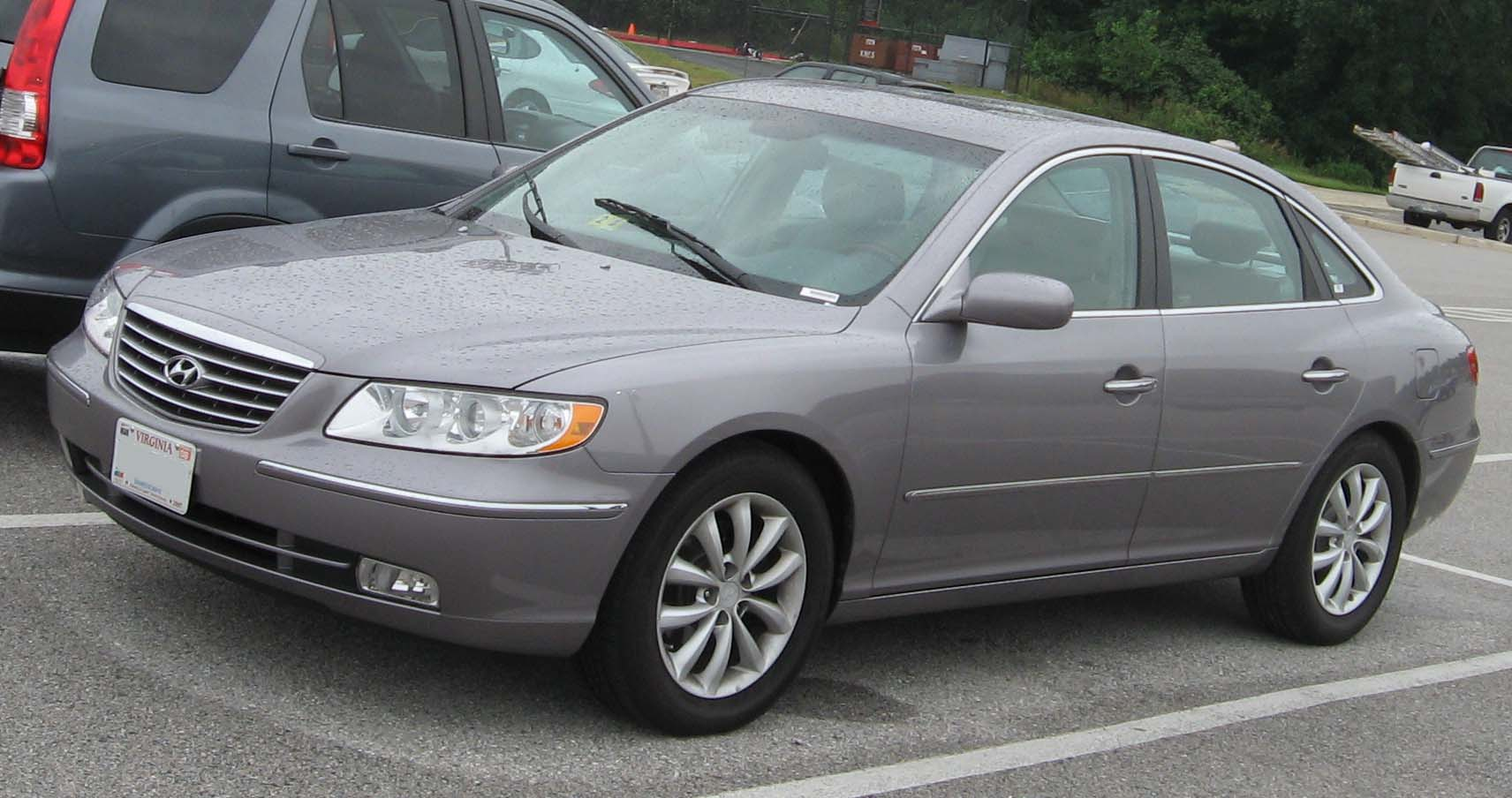 2006-2007 Hyundai Azera photographed in USA.